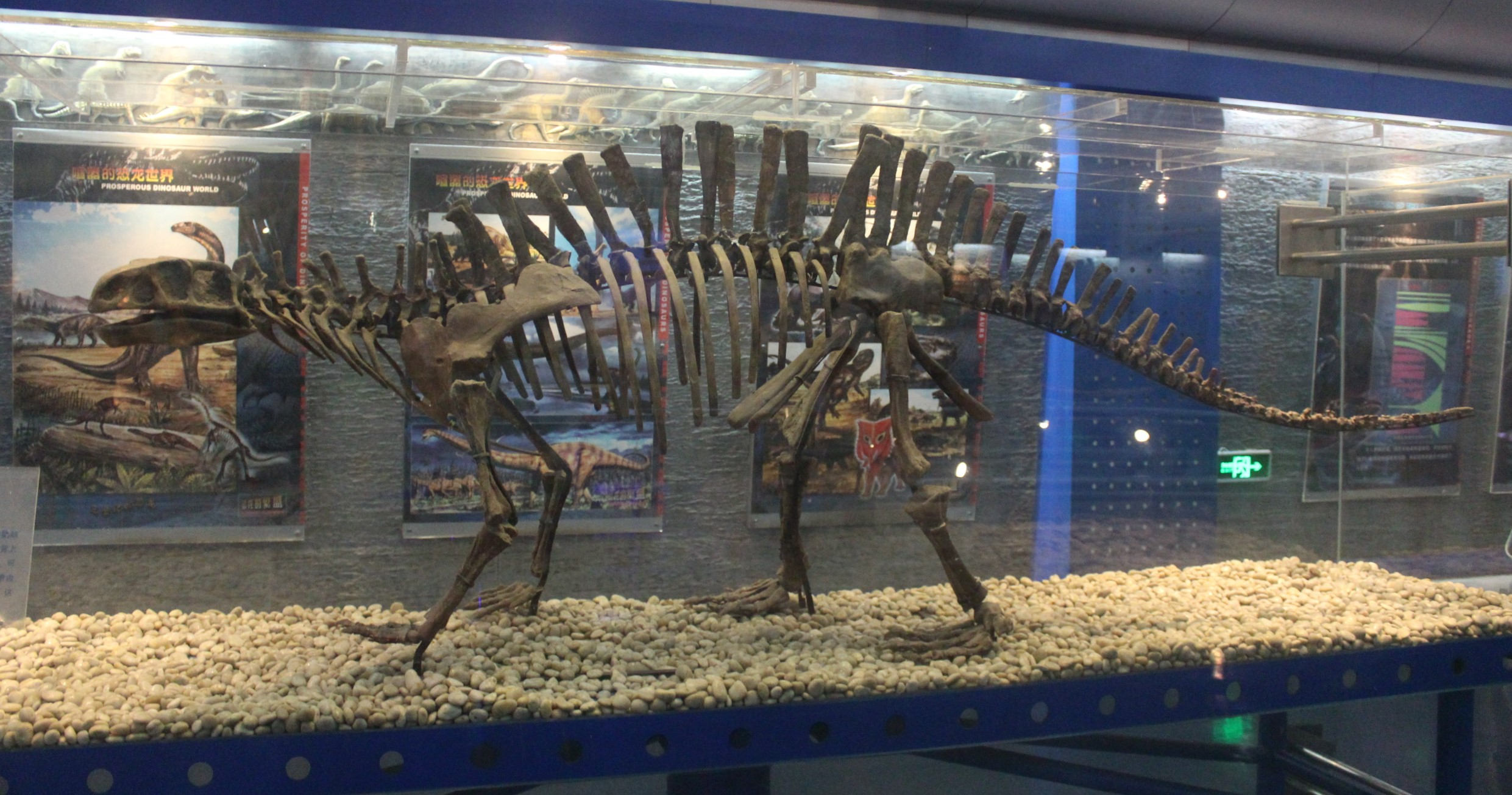 Skeletal mount of Lotosaurus adentus on display at the Beijing Museum of Natural History.